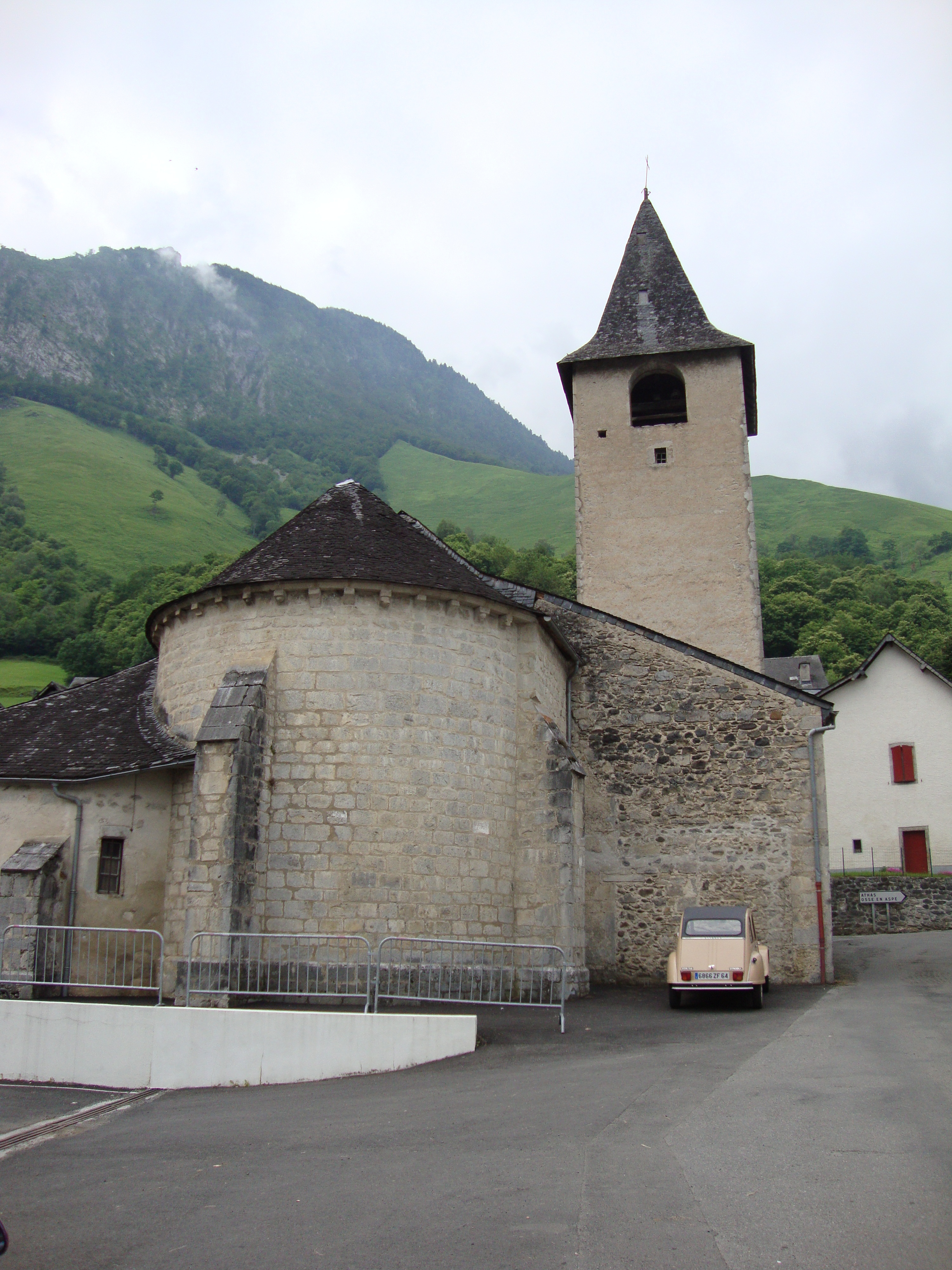 Lées (Lées-Athas, Pyr-Atl, Fr) church with apse.